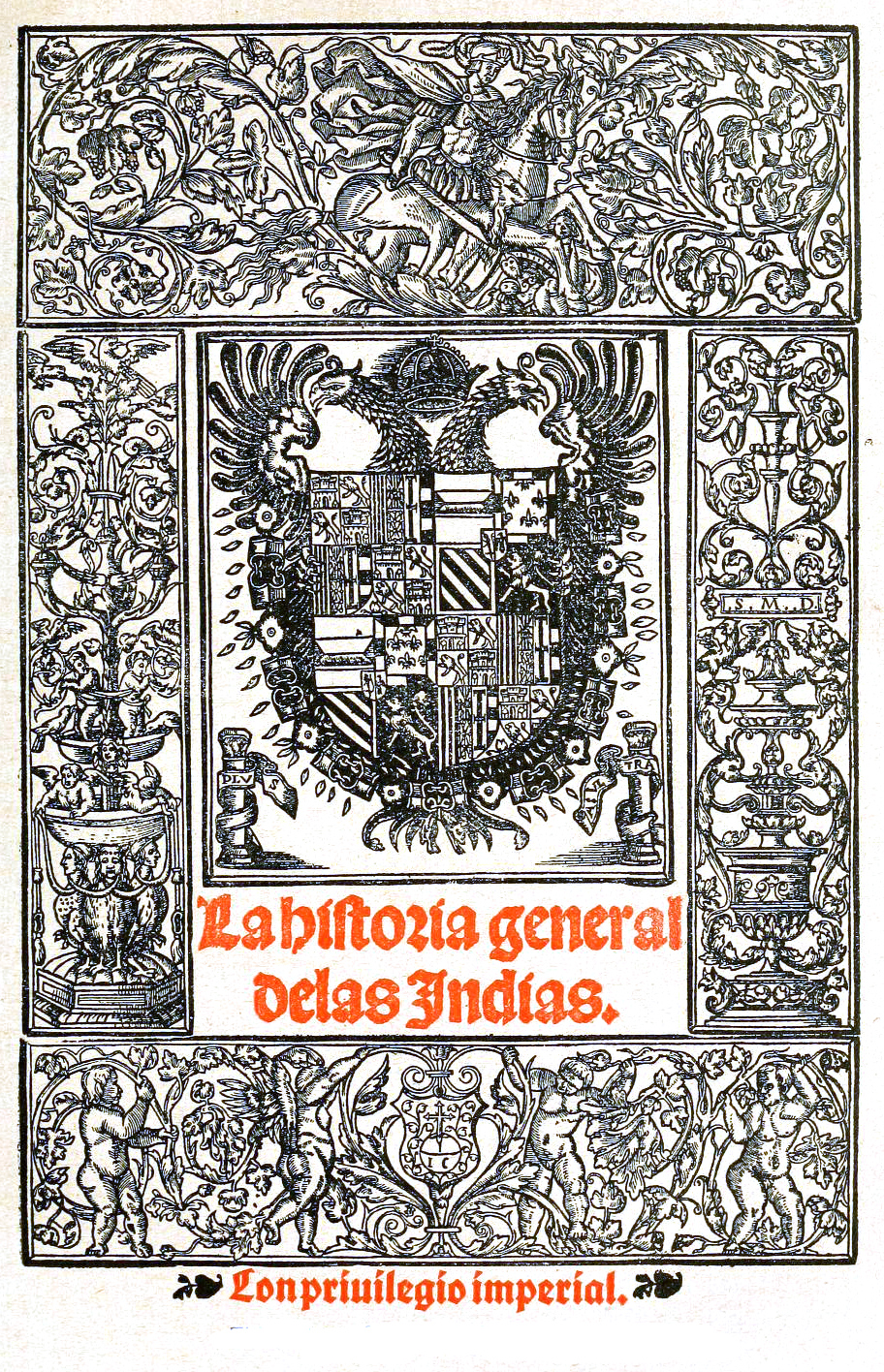 Cover of book by Oviedo, Goncalo Fernandes de (1557) La historia general delas India